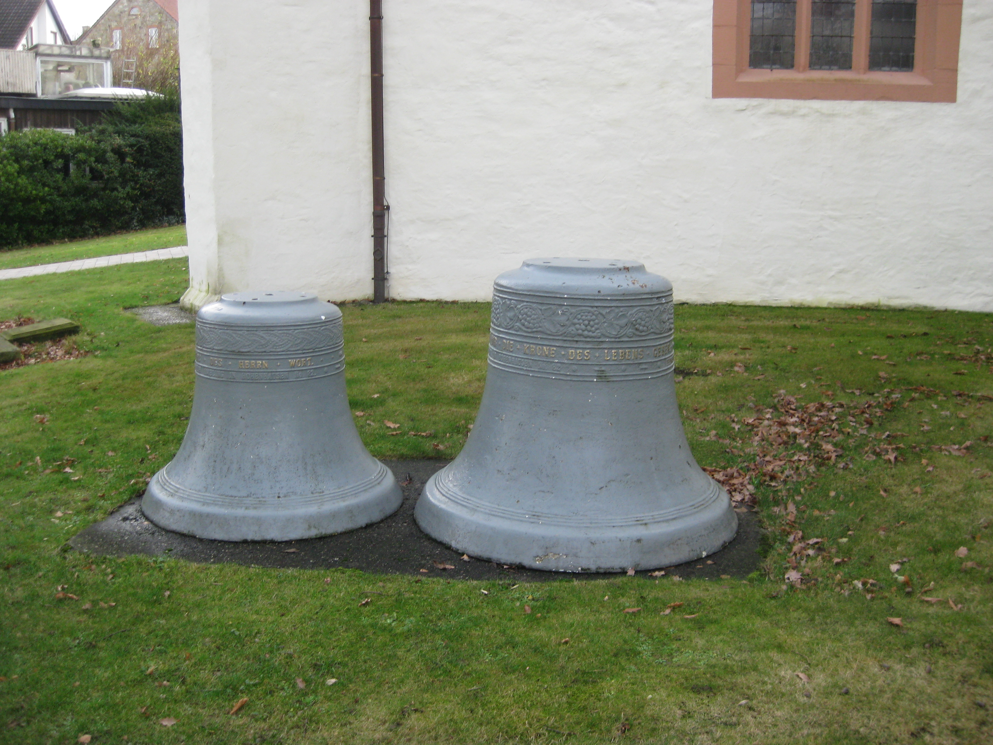 bells at the Reformed parish church “Pauluskirche” in Kalletal-Hohenhausen